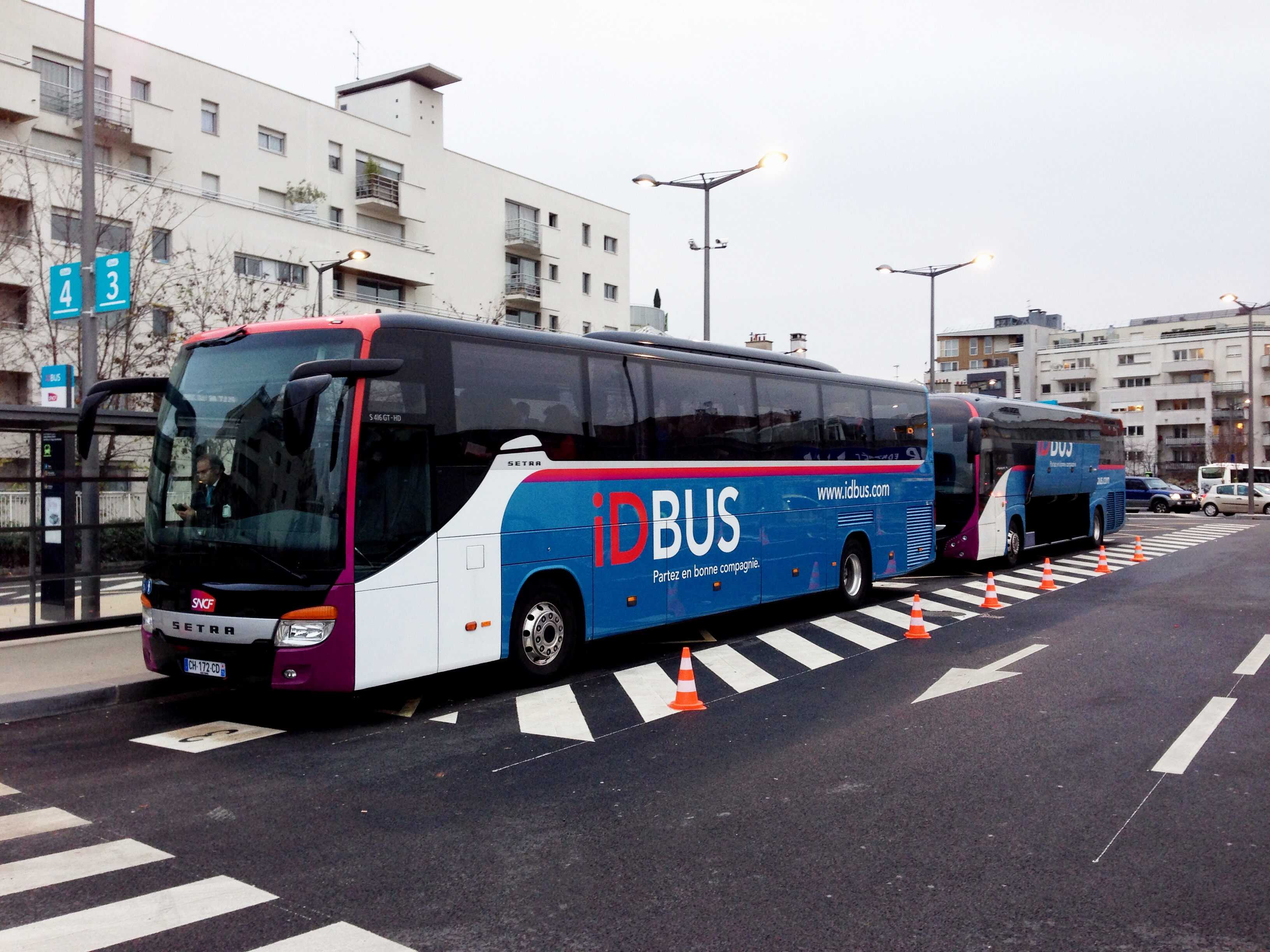 iDBUS coaches at Paris Bercy station